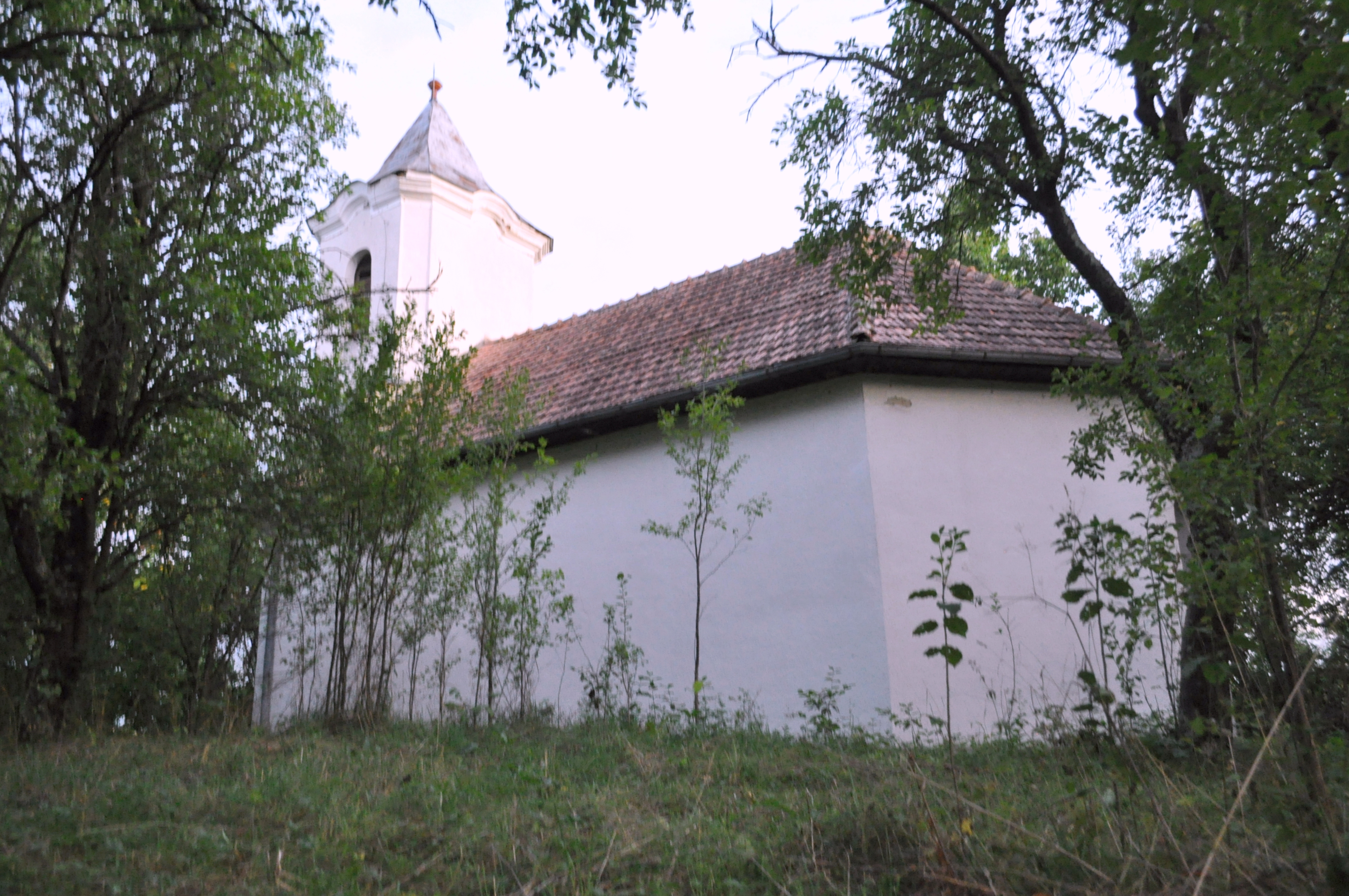 Unitarian church in Chidea, Cluj countyRomână: Biserica unitariană din Chidea, județul Cluj